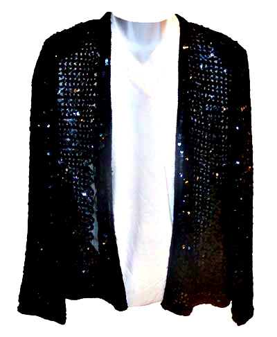 Front of Billie Jean black sequin jacket from 1984 Victory Tour at the Pontiac Silverdome, Michael Jackson gave Super-Fan his glittery jacket.